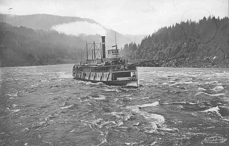 This is the steamboat Bailey Gatzert approaching Cascade Locks on the Columbia River in 1901. The view is looking to the west (downriver)